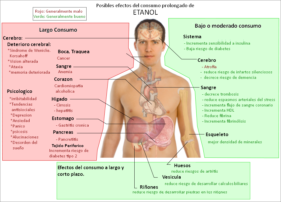 Most significant possible long-term effects of ethanol. Sources are found in main article: Wikipedia:Long-term effects of alcohol. Model: Mikael Häggström. To discuss image, please see Template_talk:Häggström diagrams